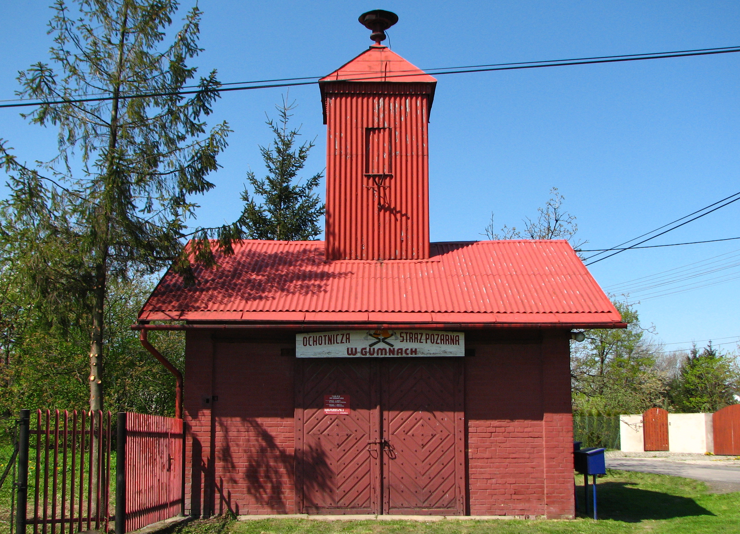 Fire station in Gumna